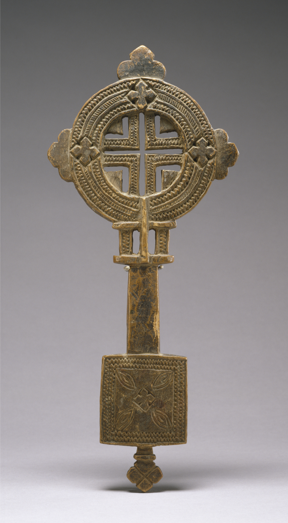 Hand-held crosses, called hand or benediction crosses, are carried by Ethiopian priests and offered to the faithful to be kissed during church services. Made out of metal or wood, the crosses are also used by priests to bless holy water and to perform exorcisms. Beginning in the 16th century, hand crosses also appear as signs of victory in icons and manuscripts, where they are held by saints, archangels, and even the resurrected Christ. This object has a conventional design, but the cross in the center appears in silhouette. As a result, during benedictions this opening could be used to project a cruciform shadow onto the object or person receiving the blessing. The rectangular base may be interpreted as a reference to the tabot, or carved altar box, venerated by Ethiopian Christians.